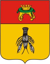 Vesyegonsk (Tver oblast), coat of arms (1780)